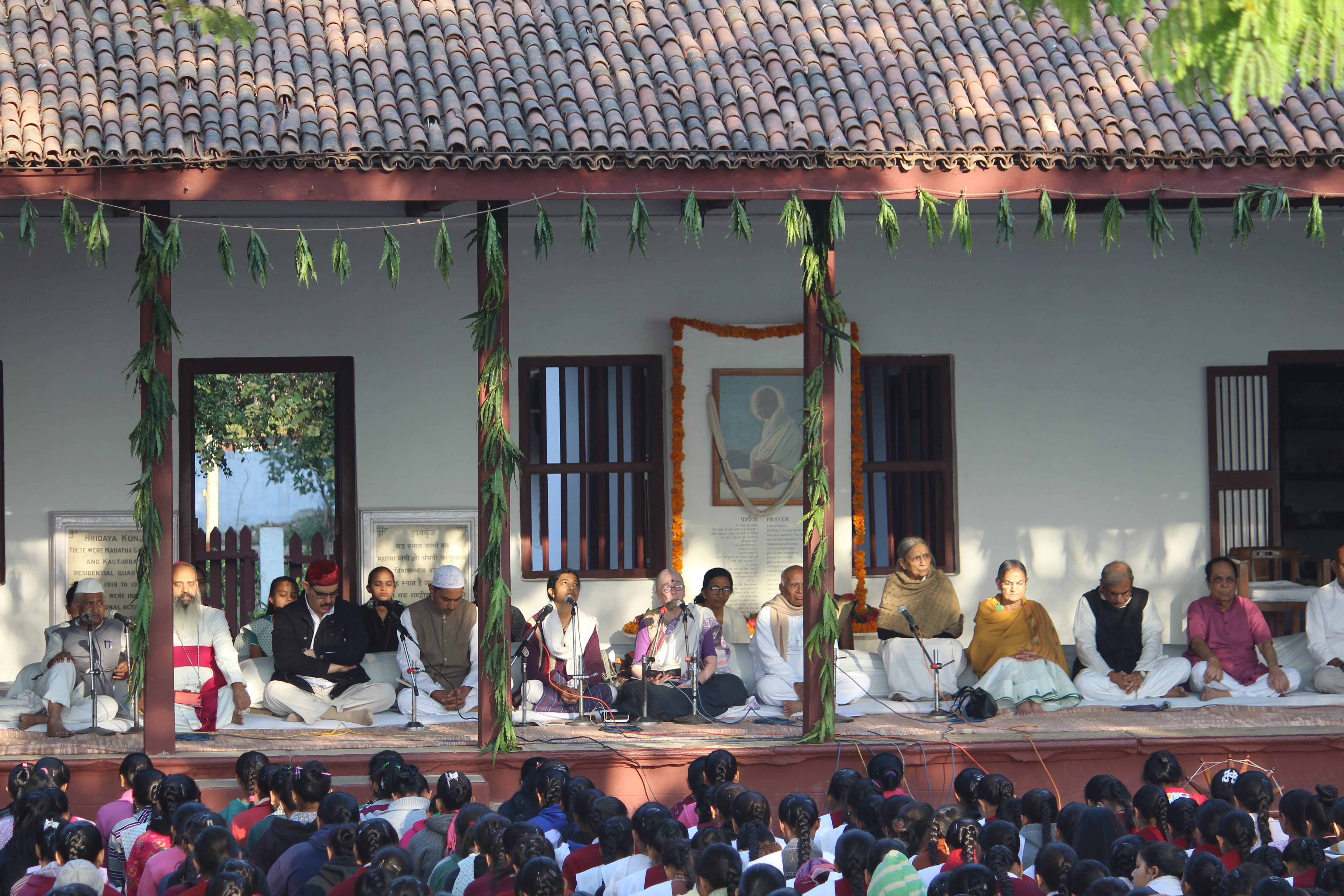 prayer at sabarmati ashram on jan 30,2018